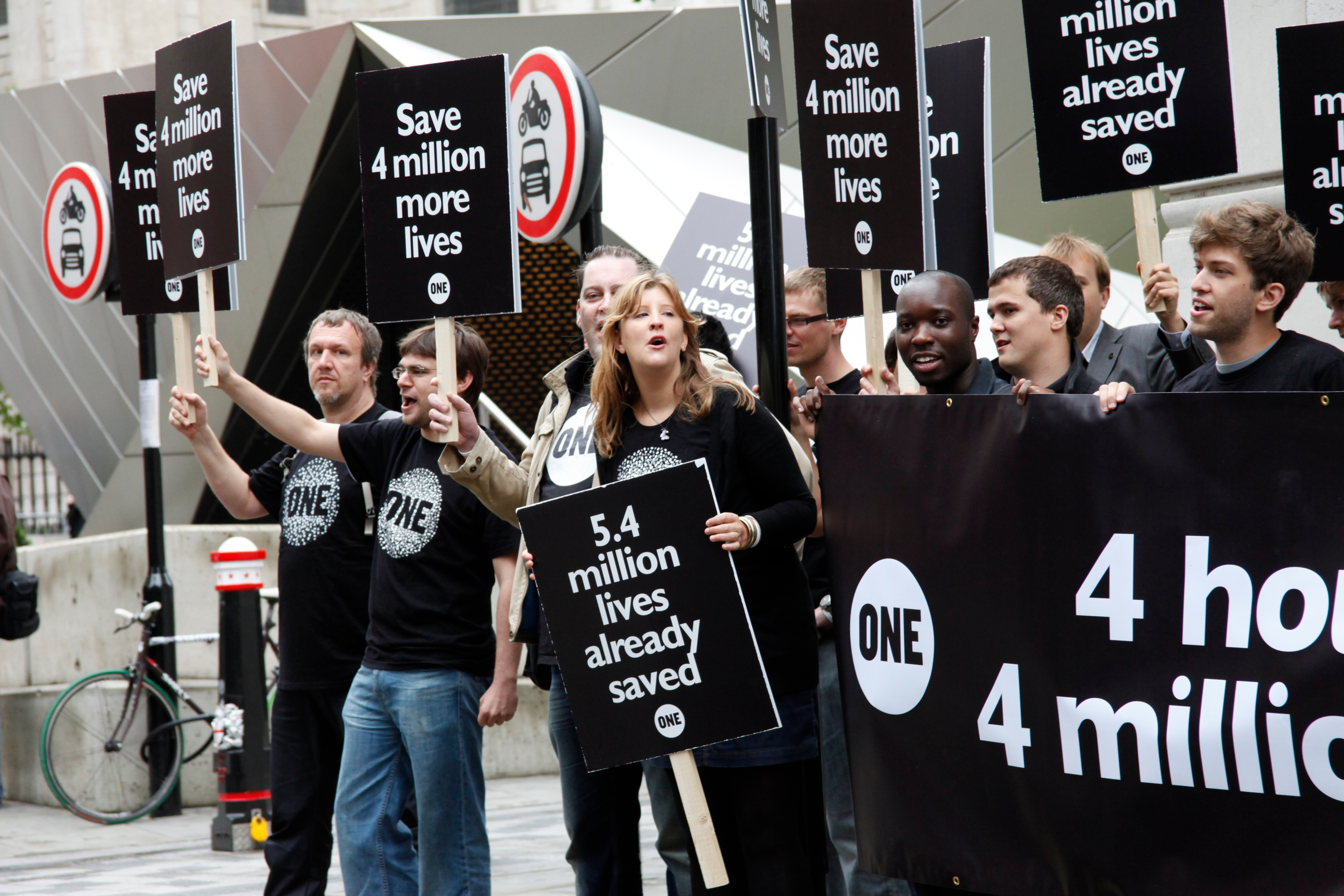 One Campaign protesters outside the GAVI pledging event, London, 13 June 2011 The British government is co-hosting a vaccine summit on Monday 13 June, calling on international partners to join the UK in spearheading a global effort to vaccinate a quarter of a billion children by 2015. The drive is set to save the lives of four million children across the developing world. To find out more, please visit